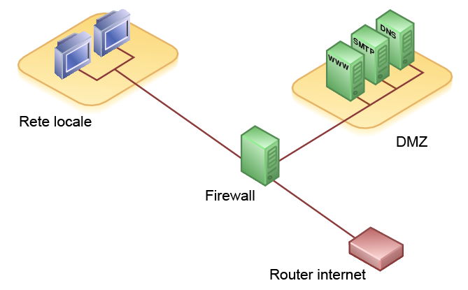 A diagram of a DMZ.